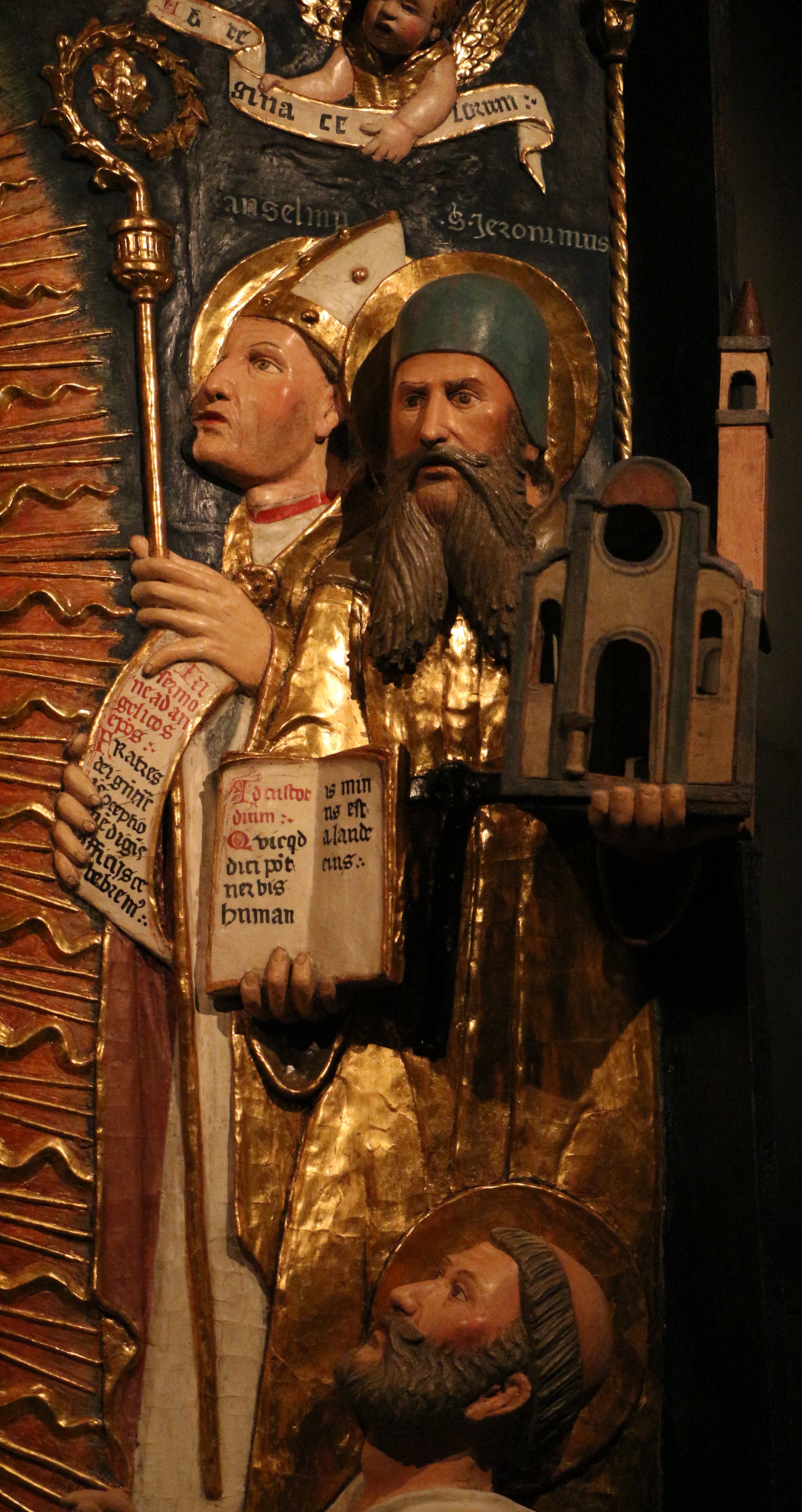 Museo Adriano Bernareggi